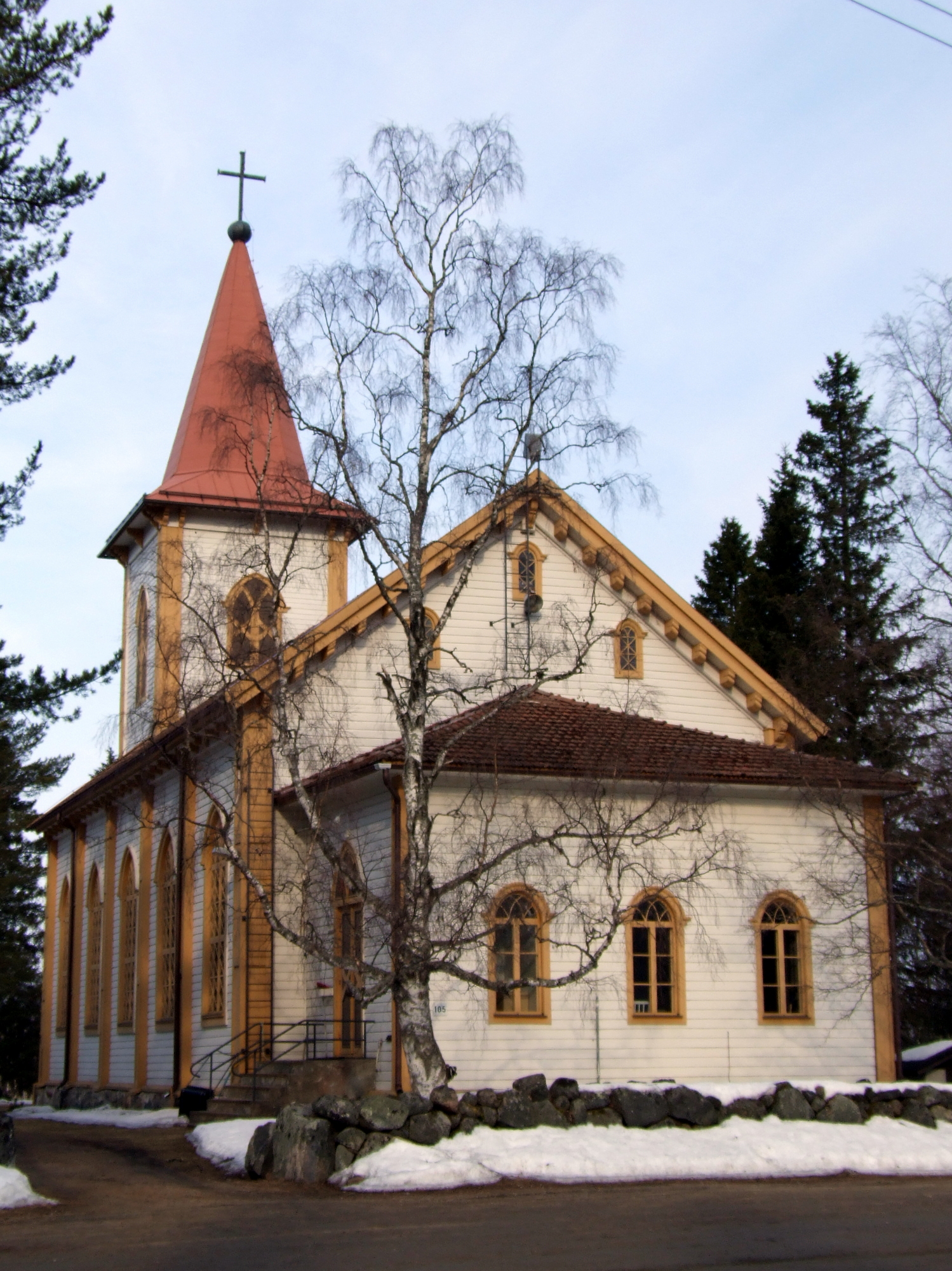 Kuivaniemi church. It was designed by Ernst Lohrmann in 1852 and built after his death in 1872.